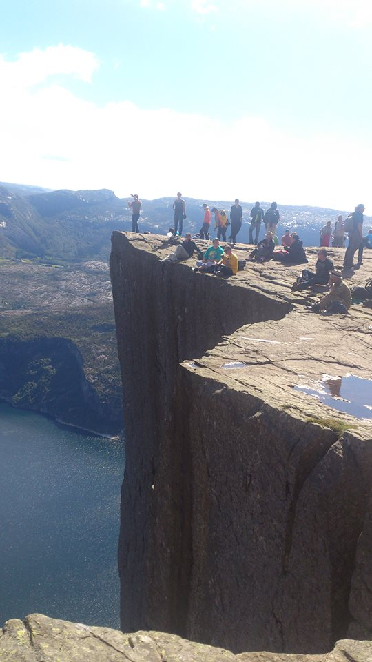 preikestolen pulpit